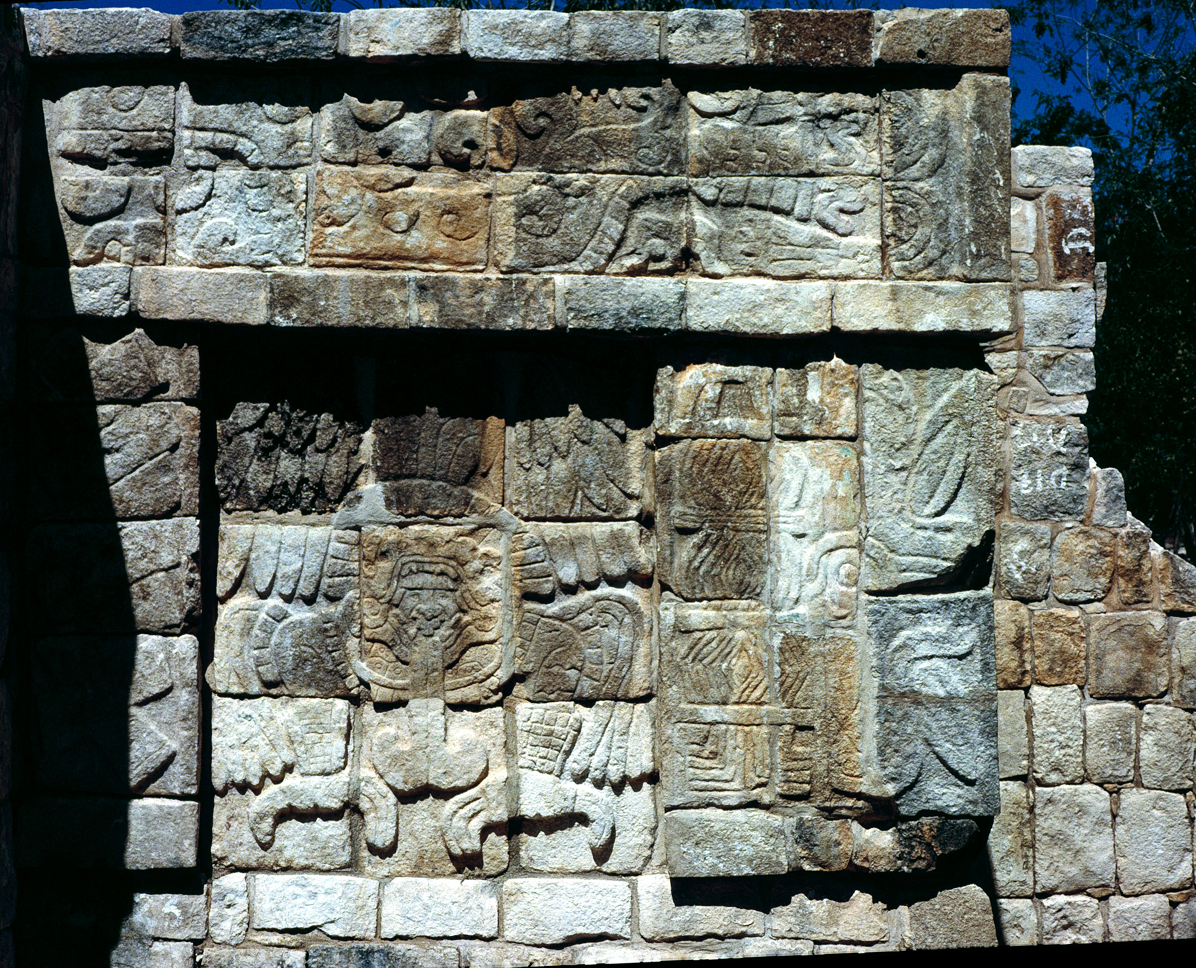 Chichen Itza, Yucatan, Mexico: Platform of Venus in front of Osario